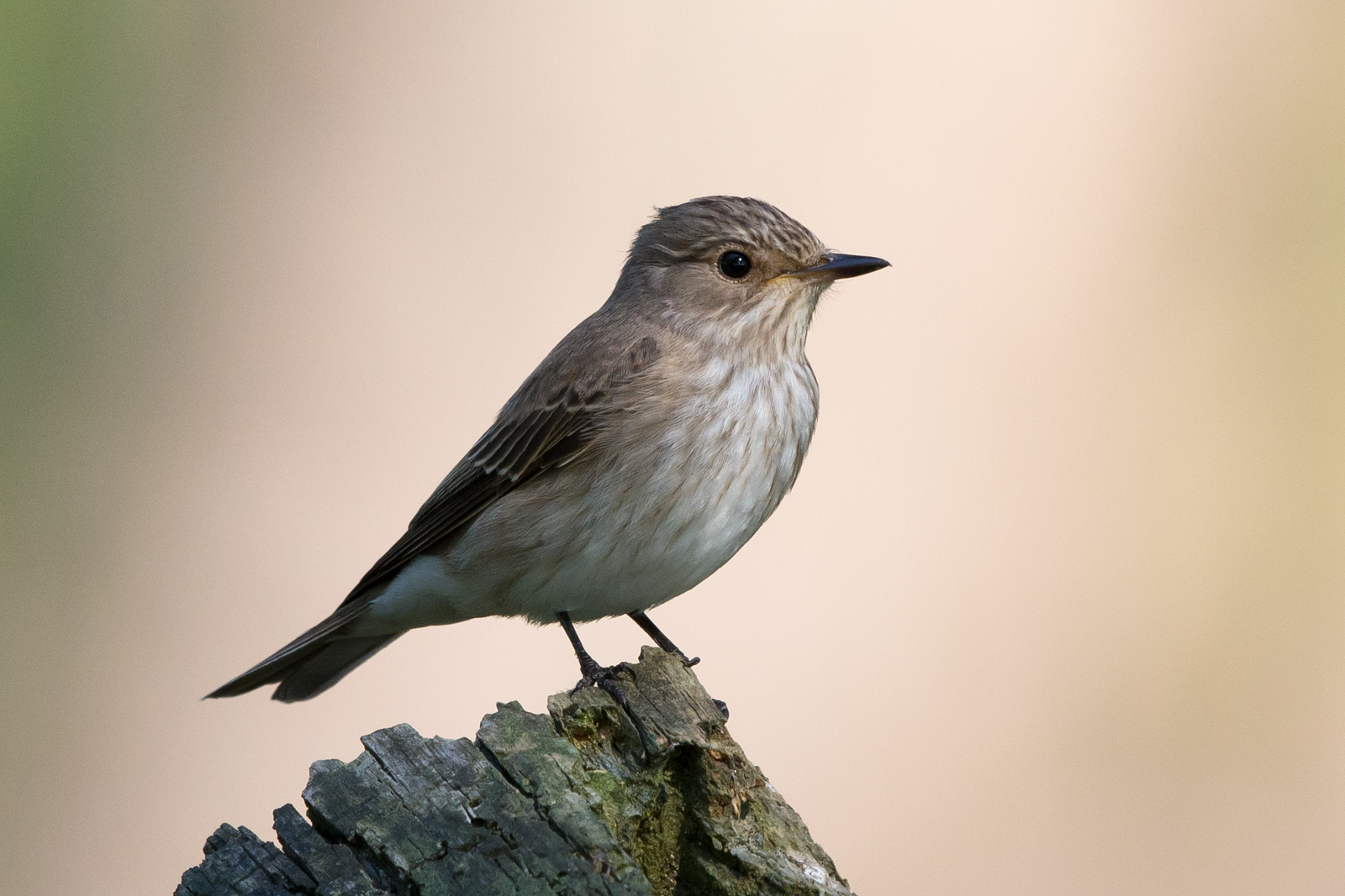 Spotted Flycatcher